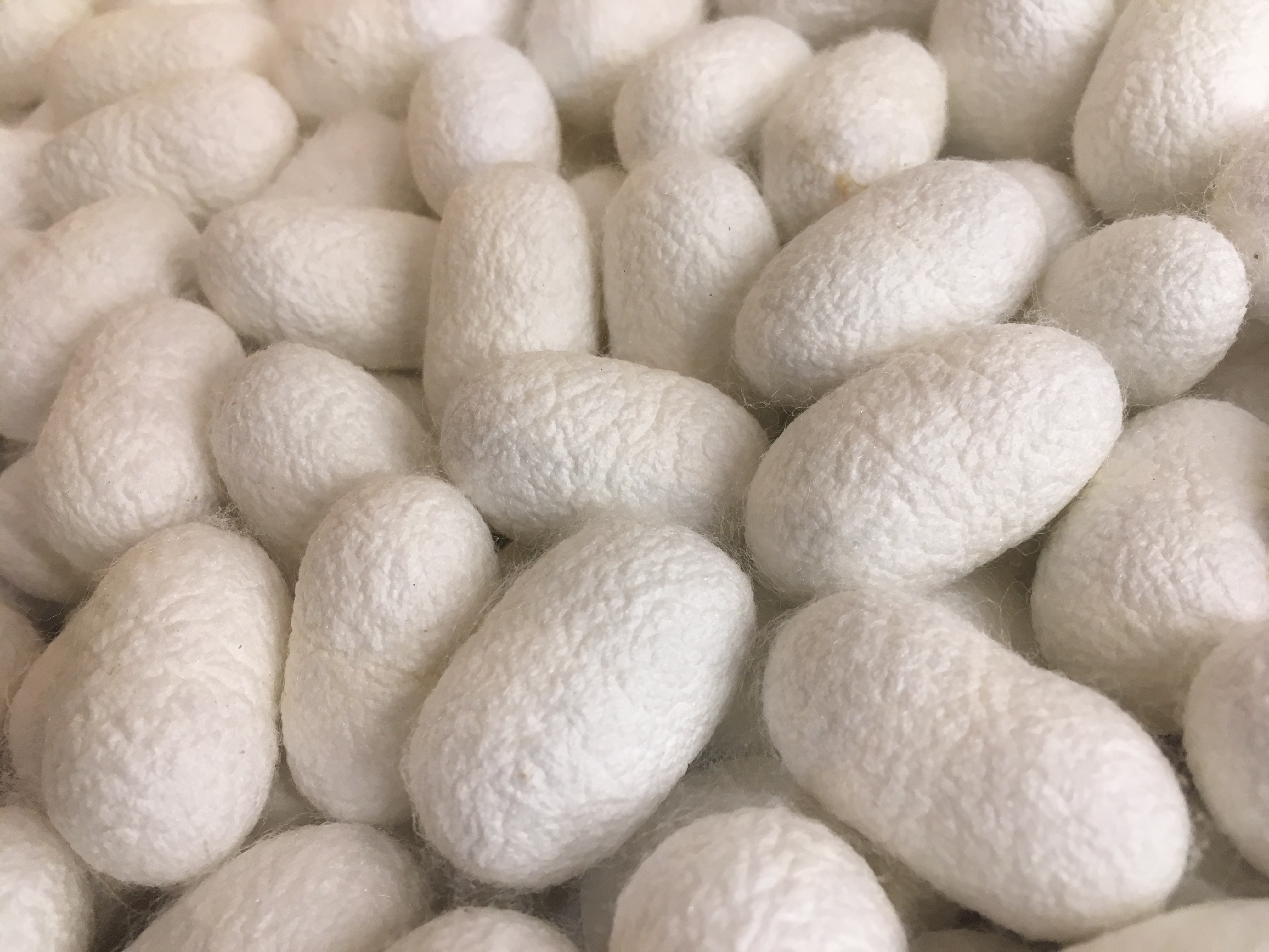 Silkworm cocoons (conforming to line) used to Yūki-tsumugi。In Oyama city, Japan.